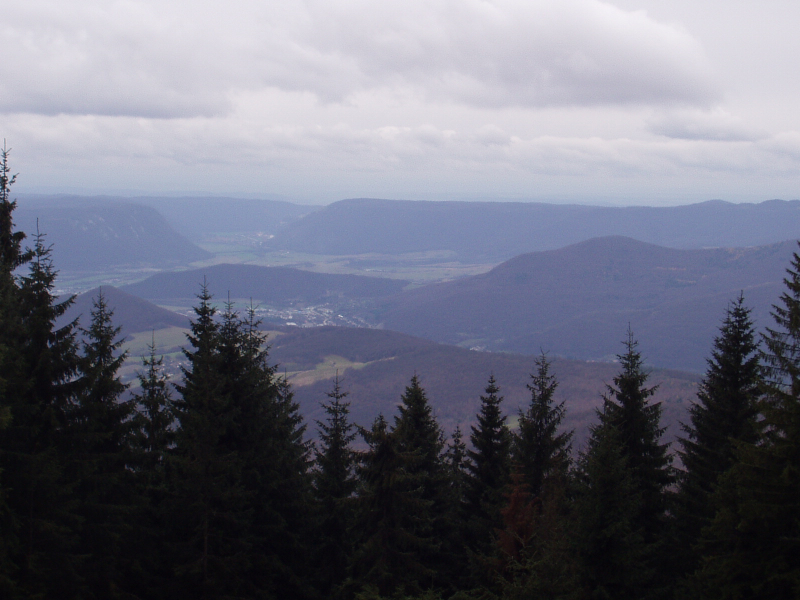 Wiev from log cabine under Volovec near Roznava (no in High Tatras!)